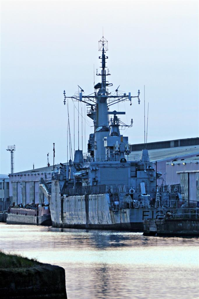 HMS Plymouth, Vittoria Dock, Birkenhead